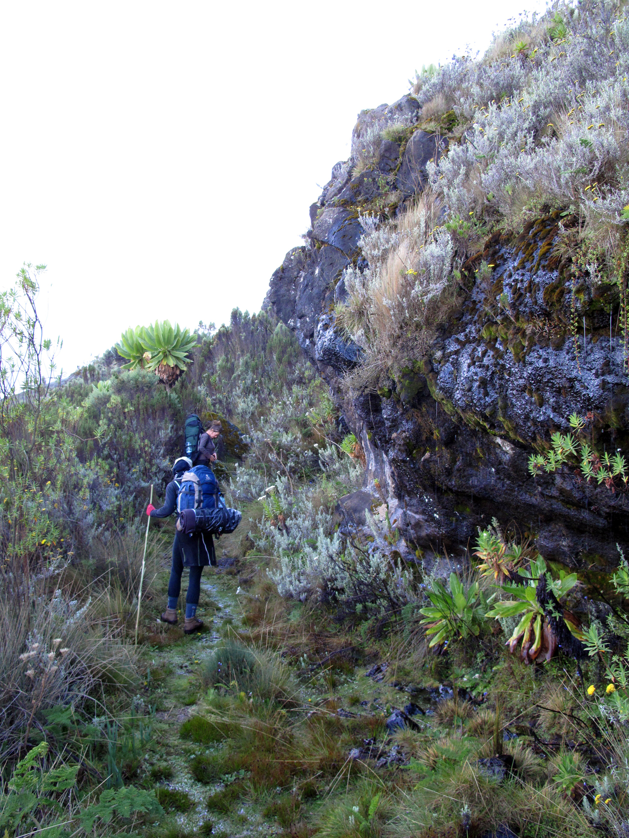 Mount Elgon flora and trail — Uganda.